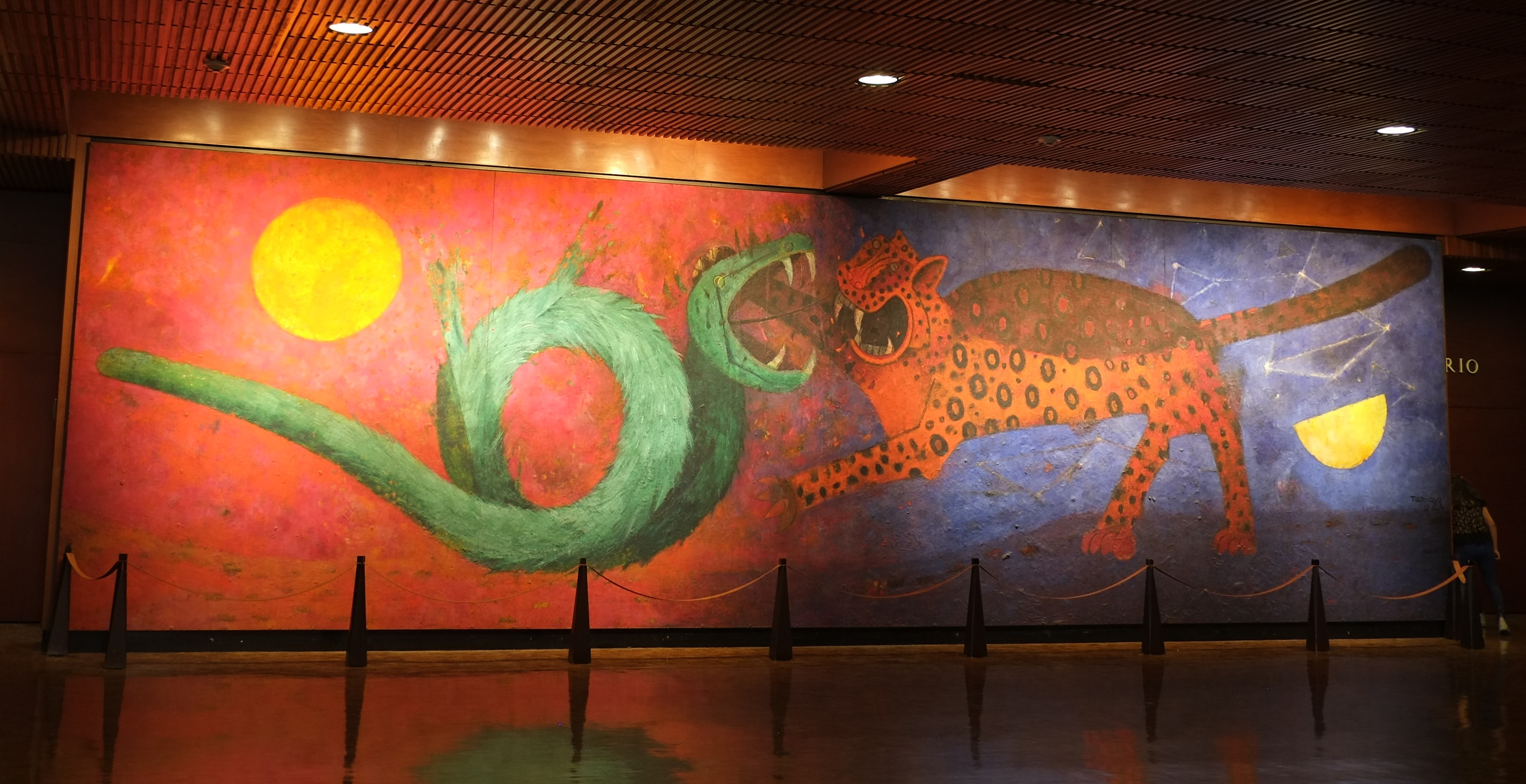 famous mural depicting the náhuatl cosmology of the complementary forces (similar to yin/yang in eastern tradition); the mural is at the hall of the Museum of Anthropology, Mexico City